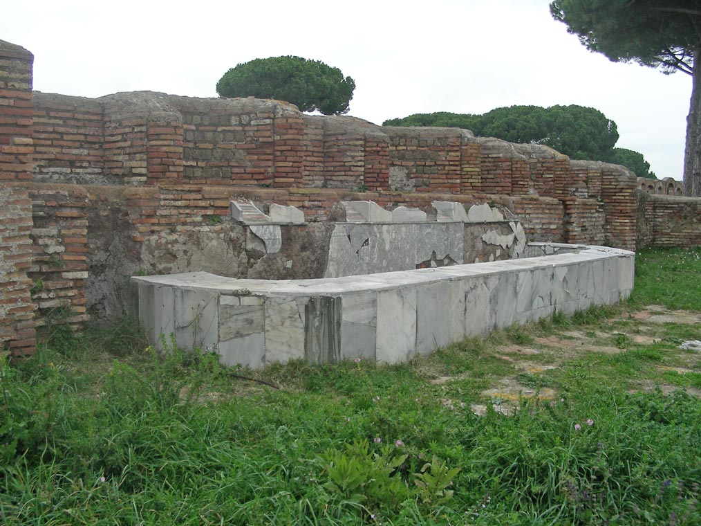 The fontain in the court of the Domus del Ninfeo (III,VI,1-3) in the archaeological site of Ostia